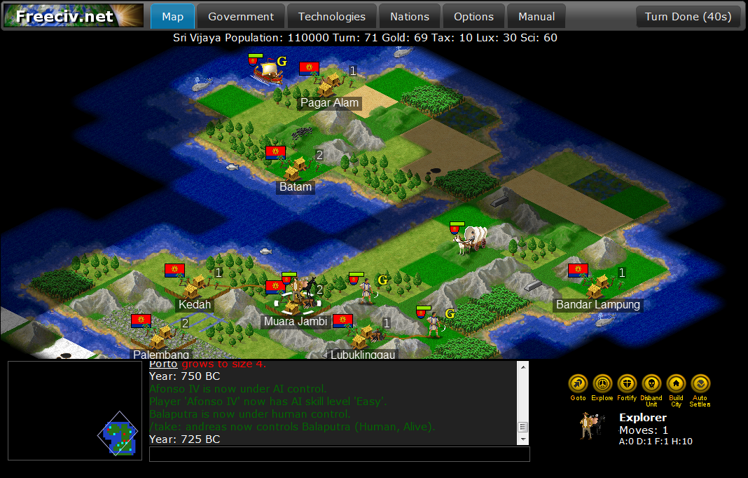 Screenshot of a multiplayer game. The game is played using the Google Chrome web browser.